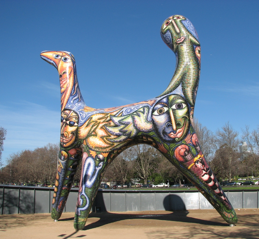 Angel by Deborah Halpern, Birrarung Marr, Melbourne, Australia.